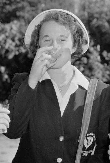 Three swimmers from the Scottish team for the 1950 British Empire Games wearing their official uniform: Elizabeth Turner, Helen Gordon, and Margaret Girvan. The women are at a garden party at Government House in Auckland. Photograph taken on 2 February 1950 by an Evening Post photographer. Conditions were decidedly sultry when Auckland yesterday had its first garden party for many years at Government House and for the first time at such a function had Empire athletes as guests of honour. Enjoying a cooling drink are Scotland's three women swimmers (from left) Elizabeth Turner, Helen Gordon, and Margaret Girvan.